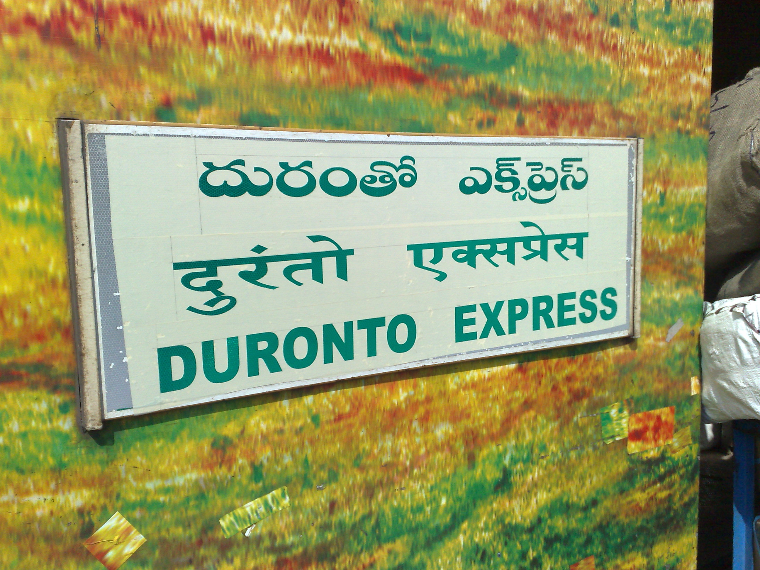 12285 Secunderabad Duronto Express